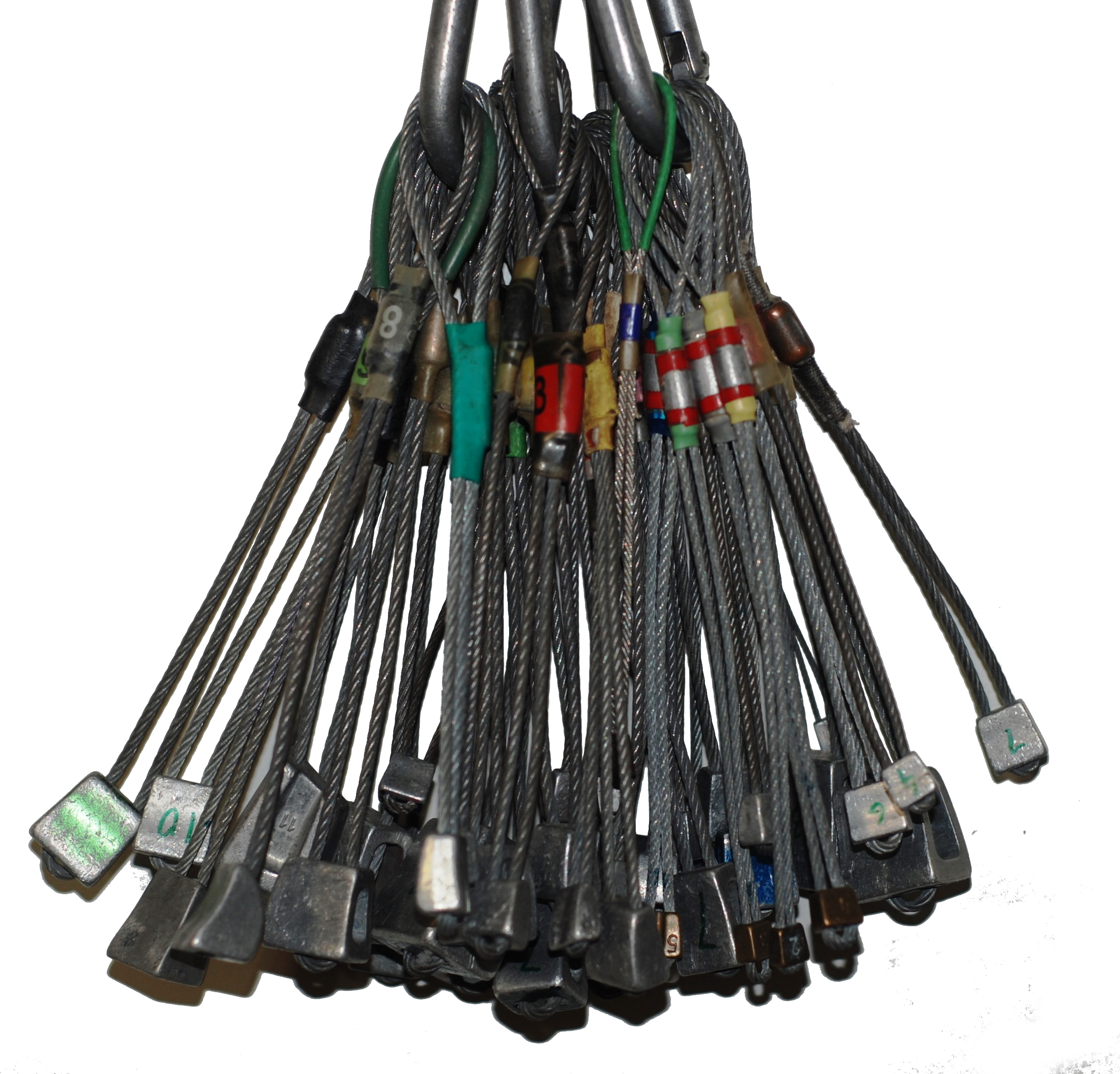 Large set of climbing nuts